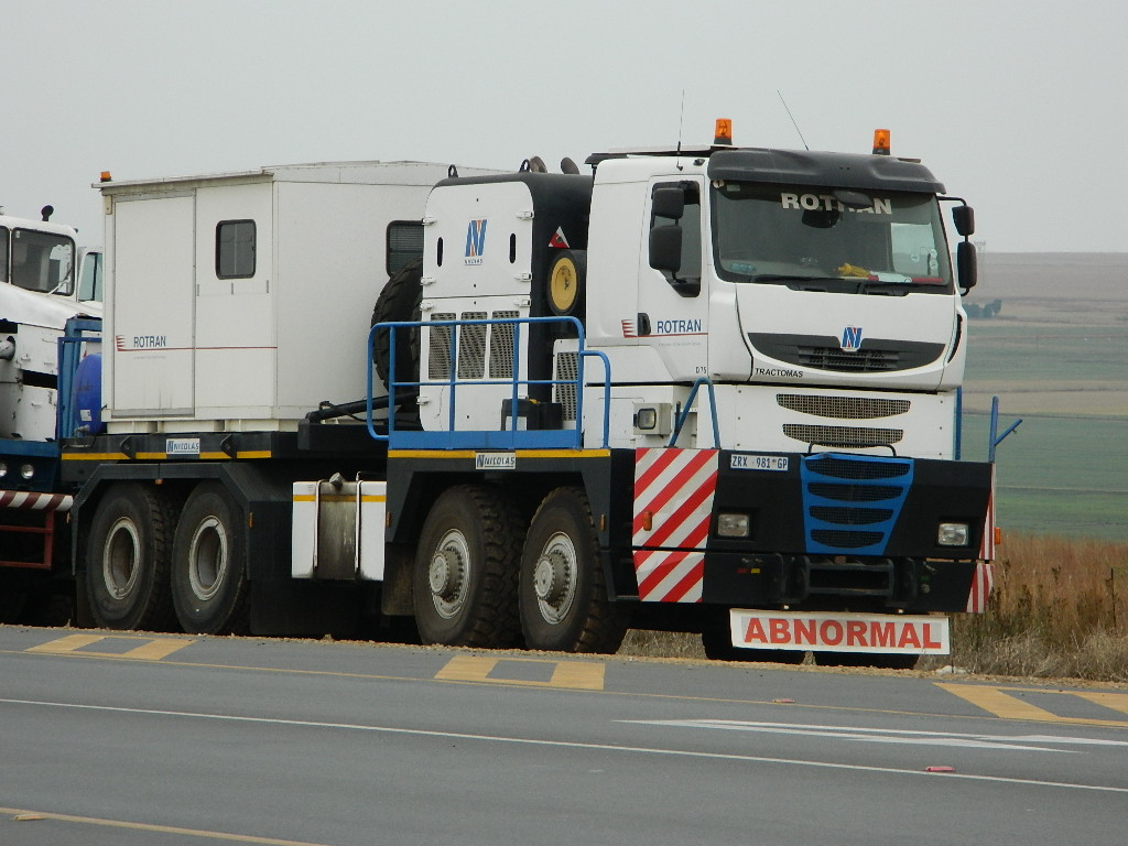 A Nicolas Tractomas in South Africa, belonging to Rotran.